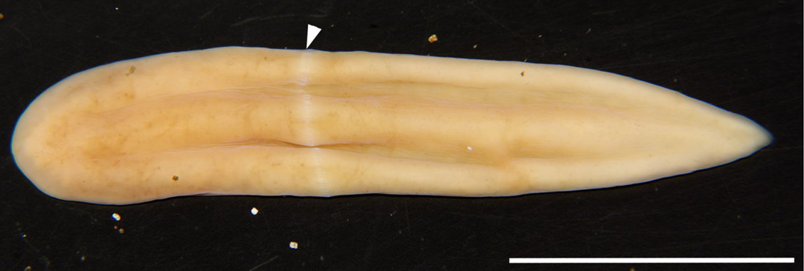 Xenoturbella japonica holotype female. The white arrowhead indicates the ring furrow.